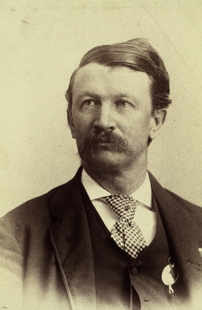 NOAA caption:Frank M. Thorn. Sixth Superintendent of the Coast and Geodetic Survey. Former head of Internal Revenue Service. First non-scientist to head USC&GS.